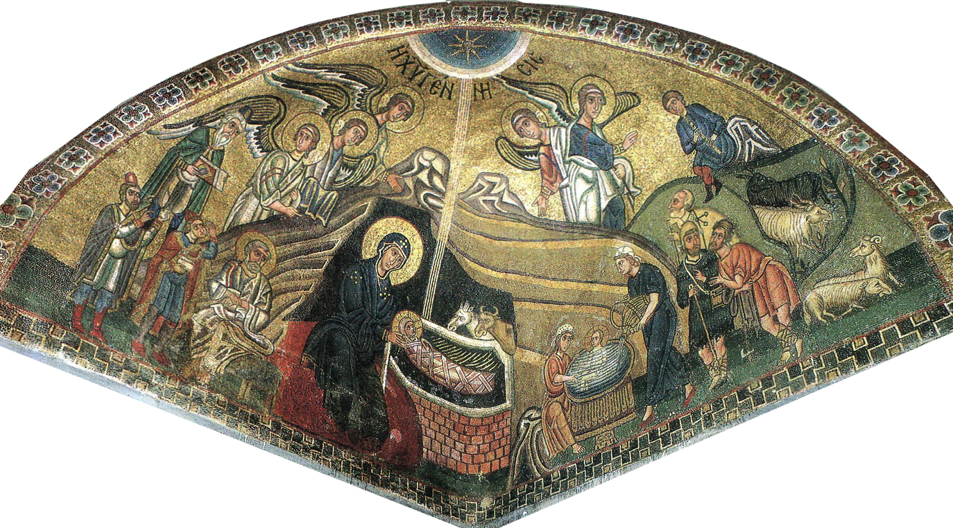 Mosaics in Hosios Loukas Monastery, Boeotia, Greece